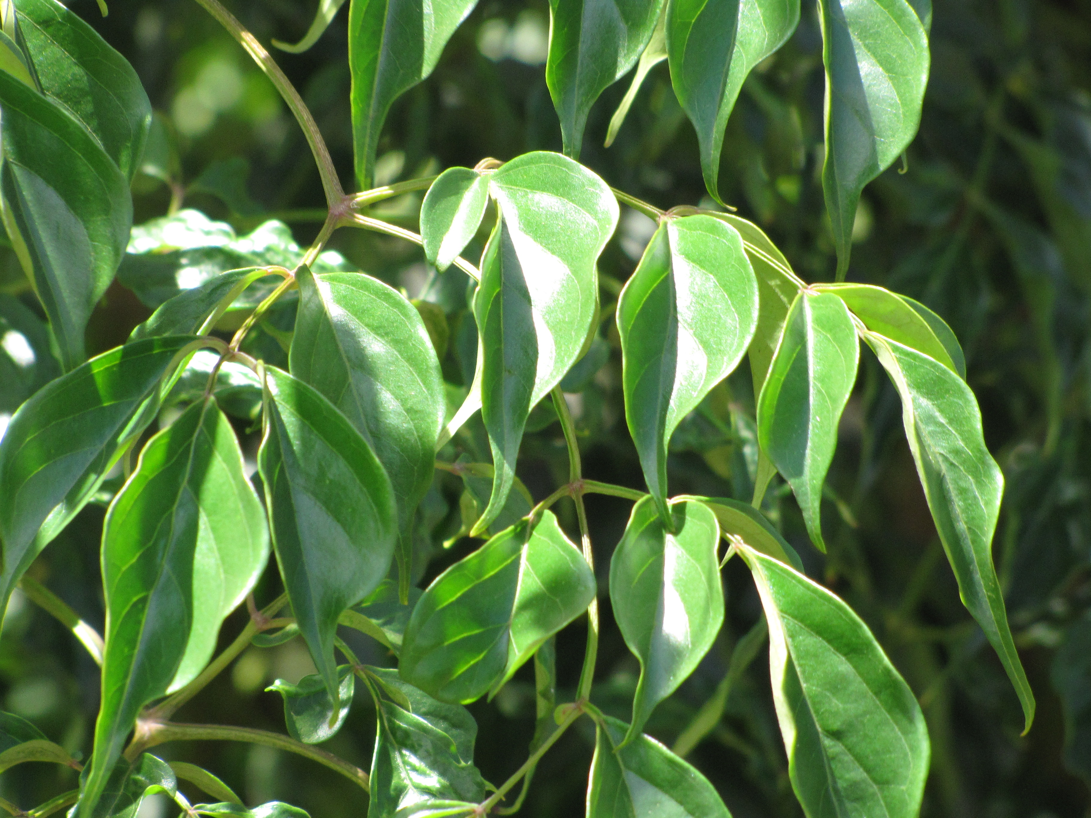 Radermachera sinica (China doll) Leaves at Wailuku, Maui, Hawaii. August 03, 2009 #090803-3613 Image Use Policy Also known as Stereospermum sinica.